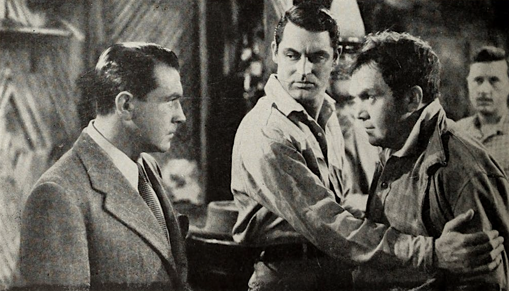 Cary Grant, Richard Barthelmess, Thomas Mitchell and Allyn Joslyn in Only Angels Have Wings, 1939.